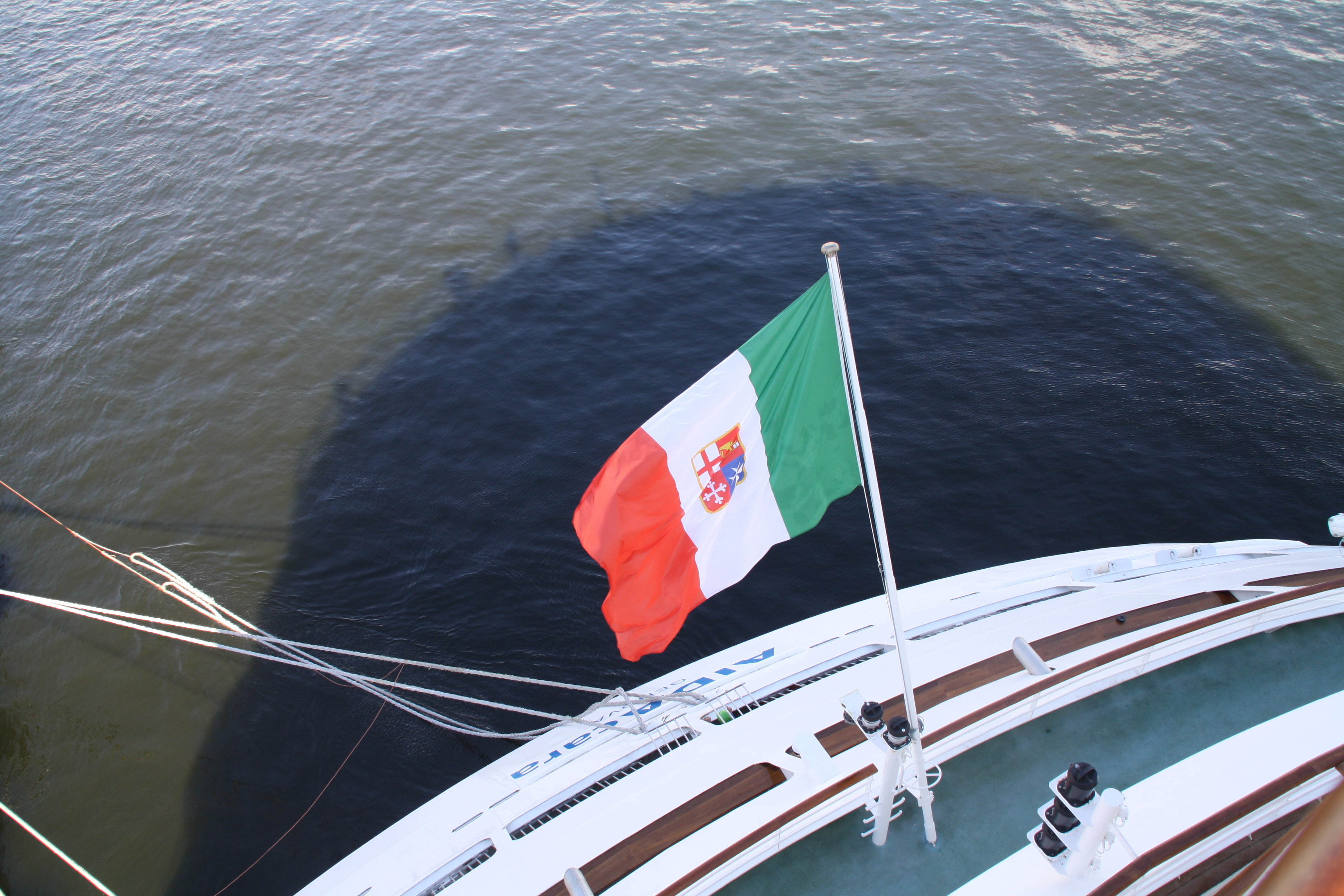 Flag of the